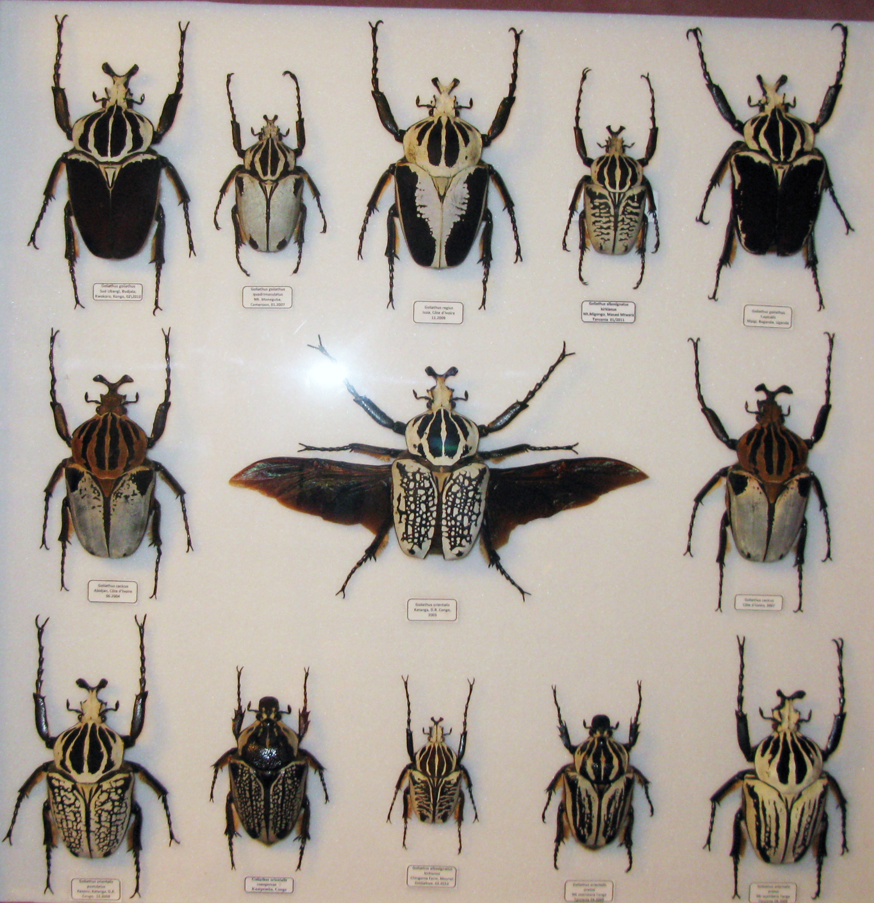 Goliathus collection